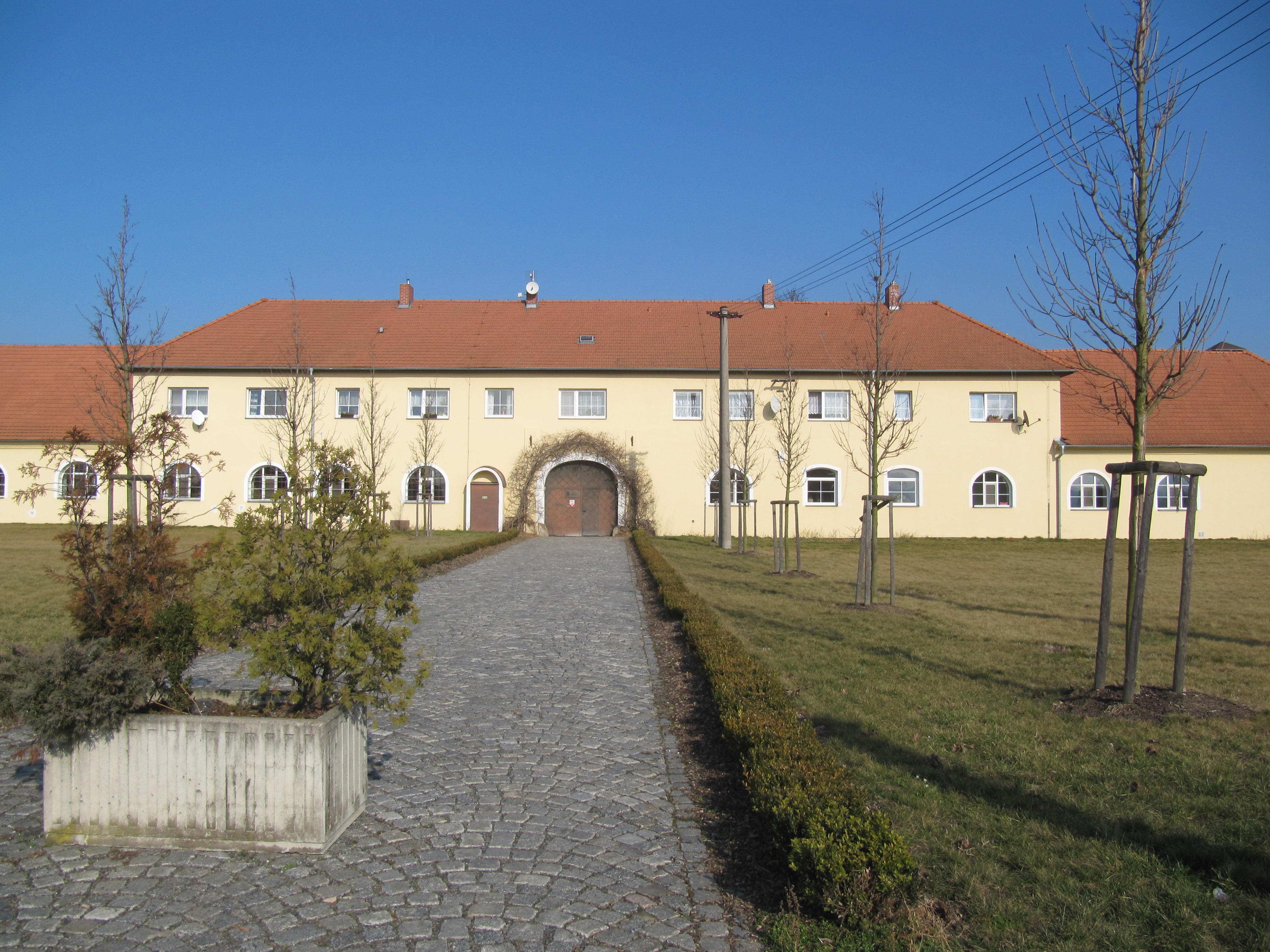 Tlumačov, Zlín District, Czech Republic.